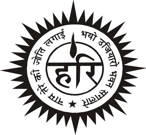 Harr Nishaan (Symbol of Ravidassia Religion) in Hindi. Made background transparent including inside.